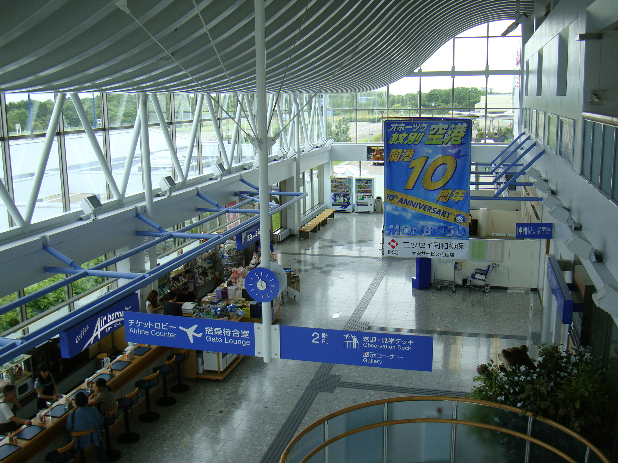 Okhotsk Monbetsu Airport